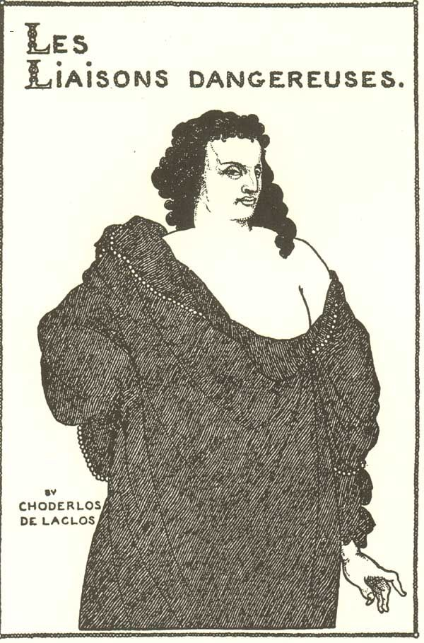 Count Valmont, frontispiece for 'Les Liasons Dangereuses' by Pierre Cholderlos de Laclos, 1896